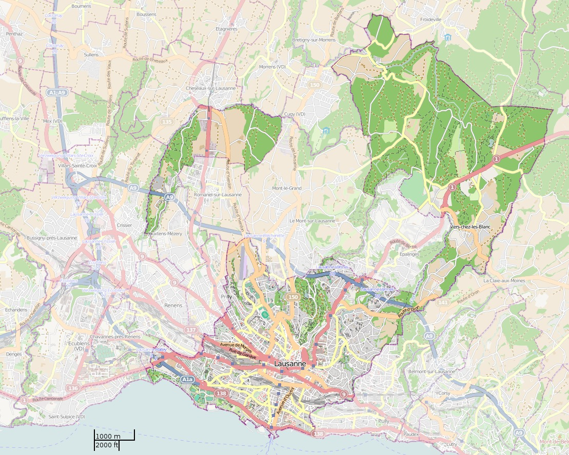 Lausanne city map Border coordinates46.6066.536←↕→6.72646.501